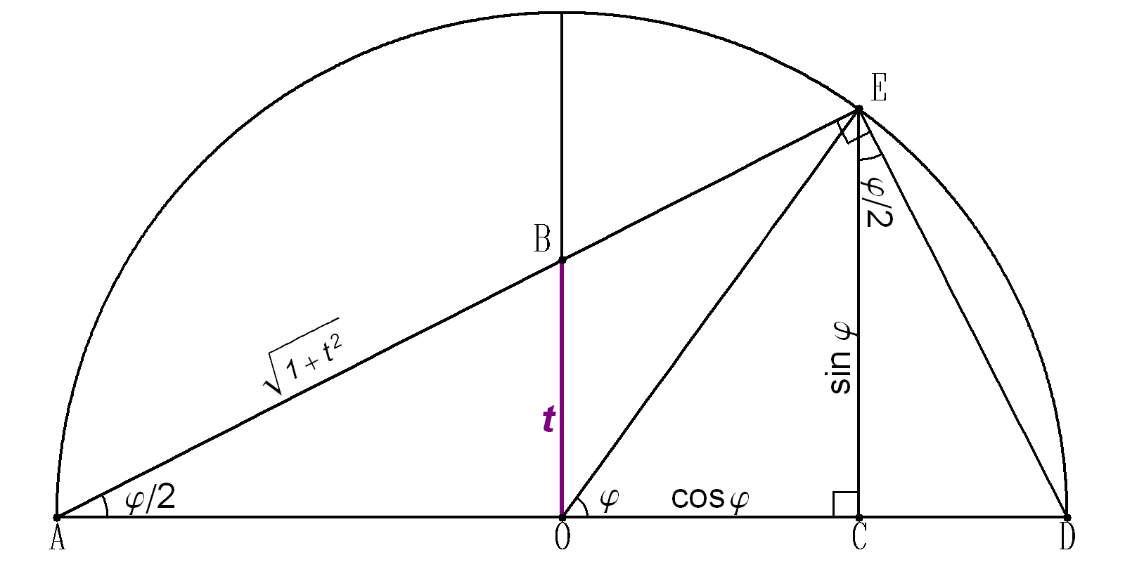 Geometric interpretation of the Weierstrass substitution t = tan ⁡ ( φ 2 ) {\displaystyle t=\tan \left({\varphi \over 2}\right)}